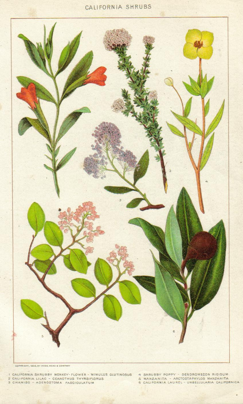 Painting "California shrubs"